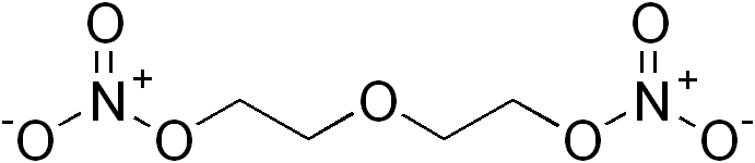 chemical stucture of diethylene glycol dinitrate